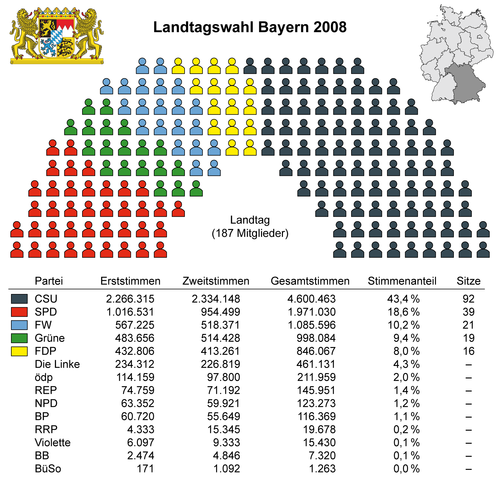 Results of the Bavarian Landtag elections of 2008